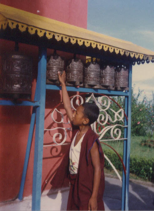 A picture taken by me in 1994 during my visit to Nepal.